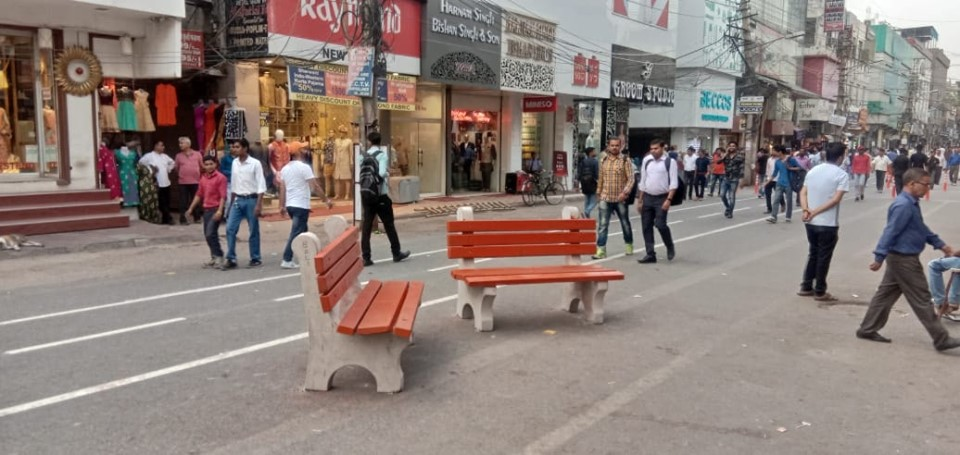 Karol Bagh Market - Revitalized 2019